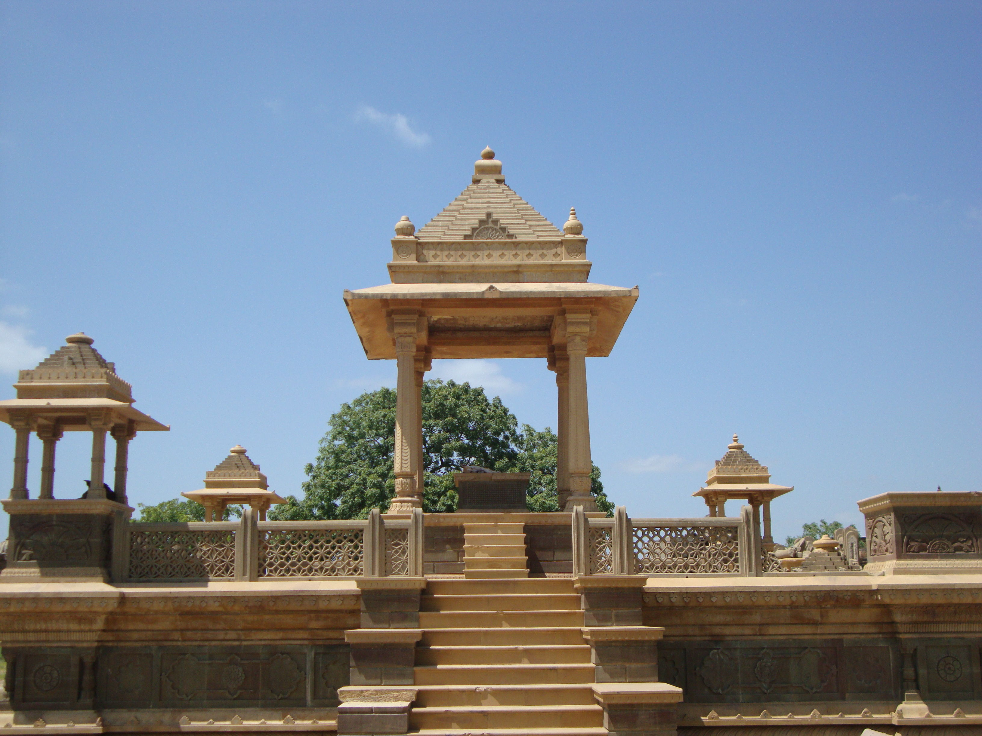 Chhatri4